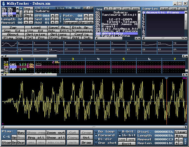 An instrument (Piano) sample picture of Milkytracker